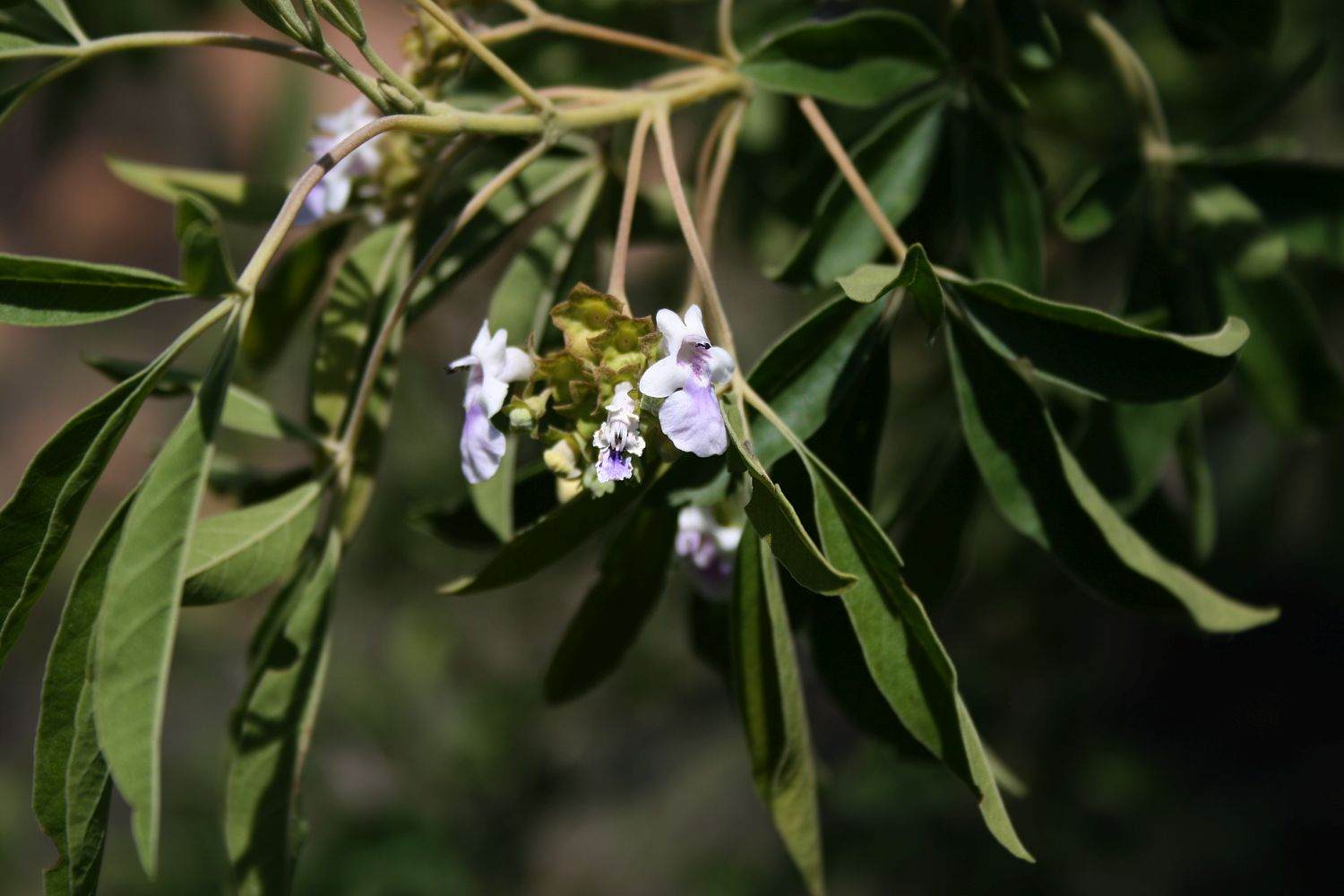 Vitex rehmannii, Lippenblütler (Lamiaceae), Viticoideae – Südafrika/South Africa: KwaZulu-Natal, Fugitives’ Trail SW Isandlwana Battlefield, ca. 18 km SSW Nqutu, ca. 1135 m